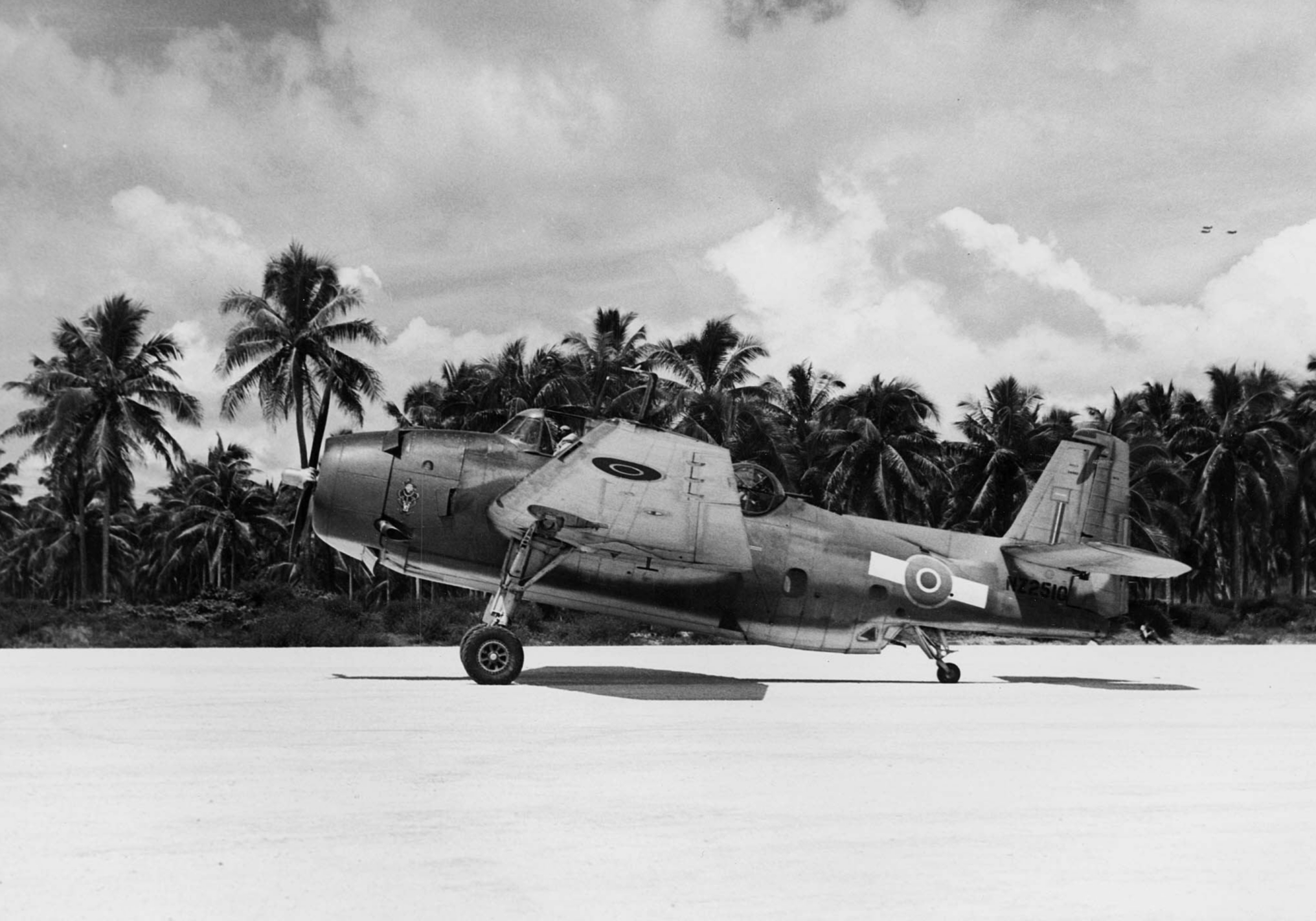 A Grumman TBF-1C Avenger (s/n NZ2510) from No. 30 Squadron, Royal New Zealand Air Force on the Turtle Bay strip at Espiritu Santo, New Hebrides. This aircraft had been assigned to the RNZAF on 25 October 1943 and assigned to 30 Squadron (identification letter "J" for "Joker"). It was ferried from New Zealand to Espiritu Santo on 24 January 1944. It was then ferried to Bougainville and operated from Piva North airfield beginning in March 1944. It was damaged by flak on 25 March 1944 and made an emergency landing at the Green Island airfield. After repair it was returned to 30 Squadron on Bougainville. It was finally turned over to the British Fleet Air Arm at Hobsonville, New Zealand on 7 September 1945.